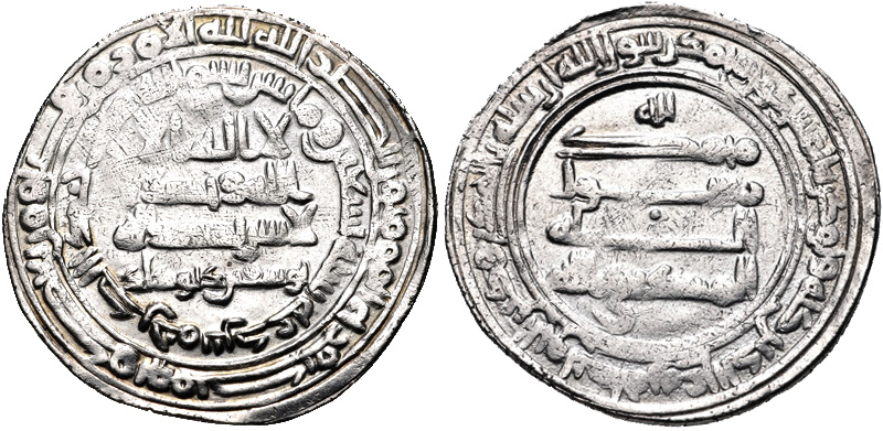 Coin of the Sajid ruler Yusuf ibn Abi'l-Saj.